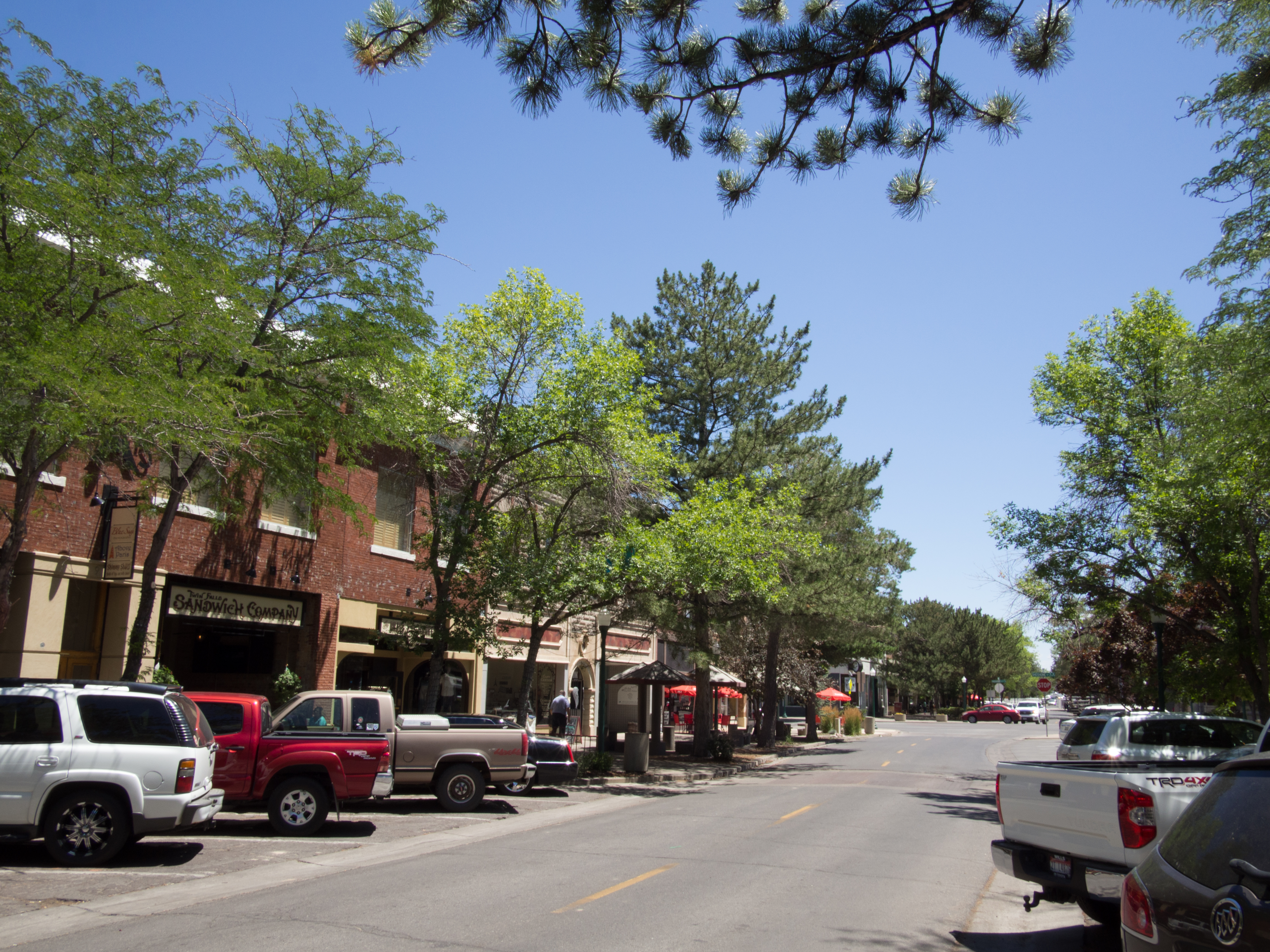 Main Ave between Gooding and Shoshone Streets